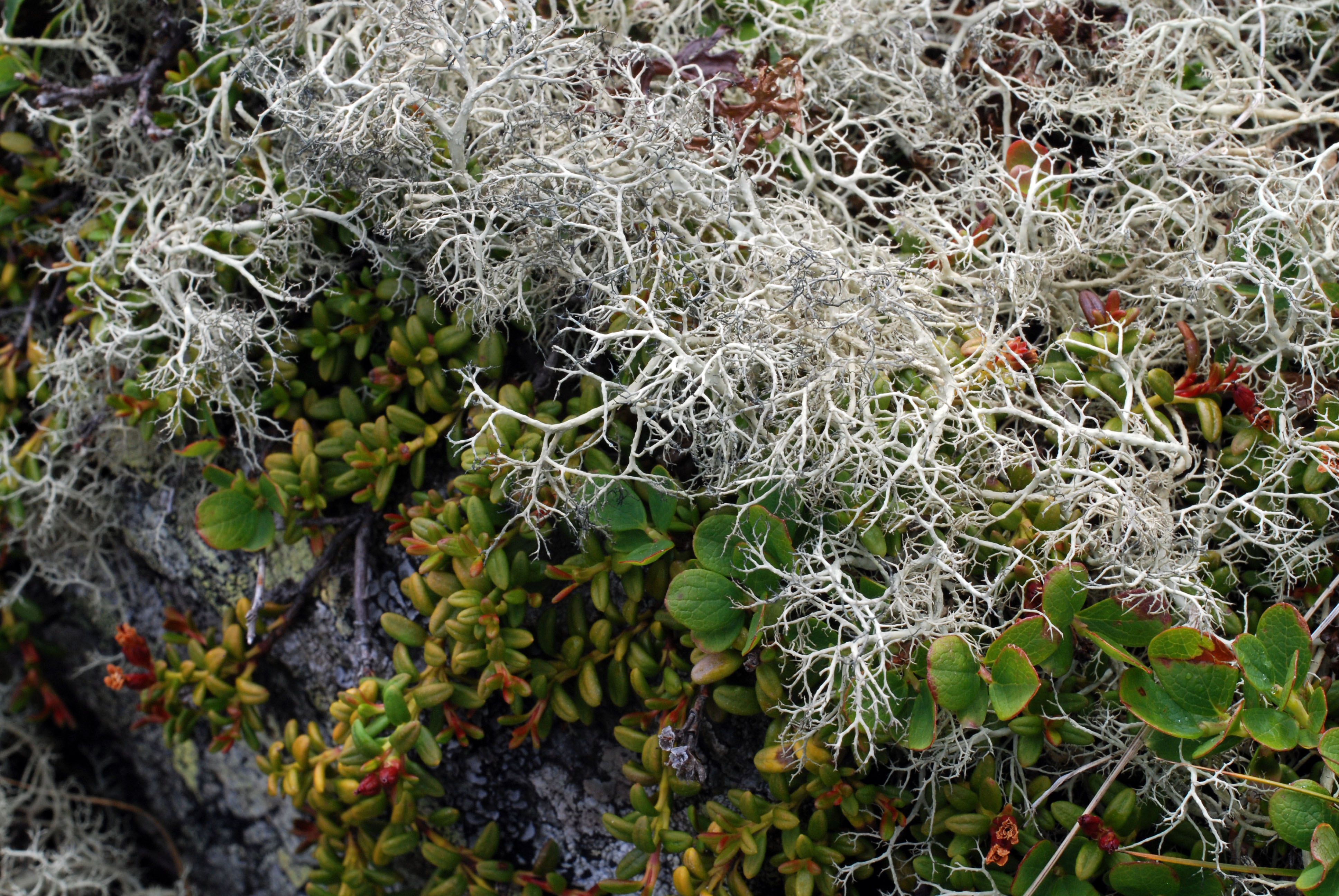 Alectoria ochroleuca (with Loiseleuria procumbens and Salix herbacea), near Naßboden See, Nockberge, Carianthia, Austria ~ 2100 Meter above sea level